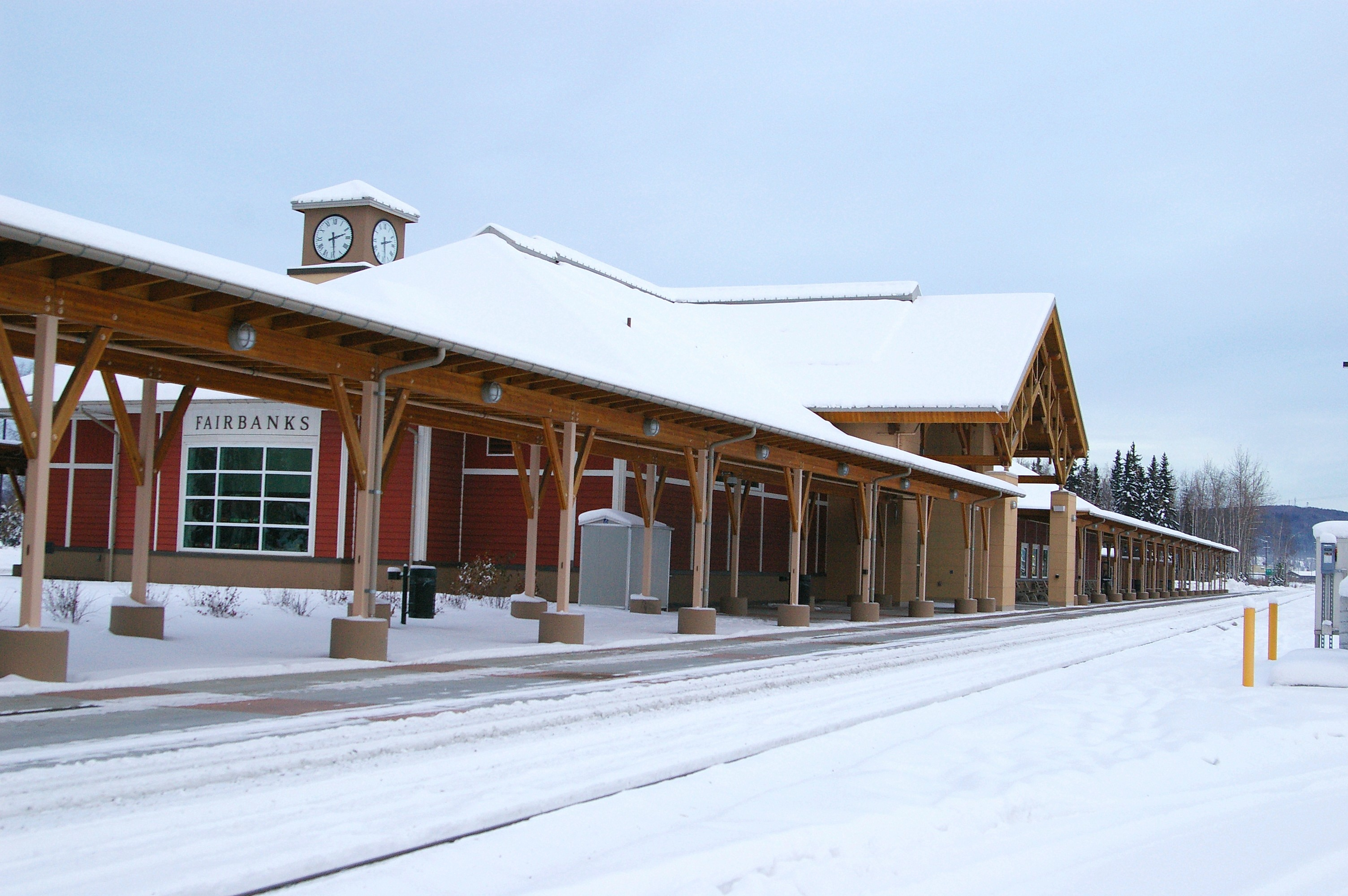 Built and used by the Alaska Railroad in Fairbanks. The clock tower is still on daylight savings time. It actually was 1:30 pm. Alaska Standard Time. Had it really been 2:30 pm I probably would have needed a tripod to get this shot because it gets dark here real early in December! Alaska RR runs two passenger trains per week in Fairbanks in winter, one in each direction, on weekends.